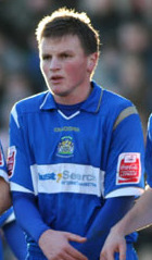 County Stars Anthony Pilkington, Carl Baker, Stephen Gleeson & Tommy Rowe Line-Up In A Wall Against Leeds United In Dec 2008.